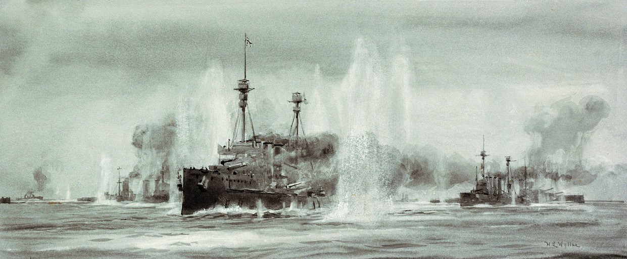 'HMS 'Defence' and 'Warrior', passing the Battlecruiser Squadron at the Battle of Jutland, 31 May 1916, about 19.20'.